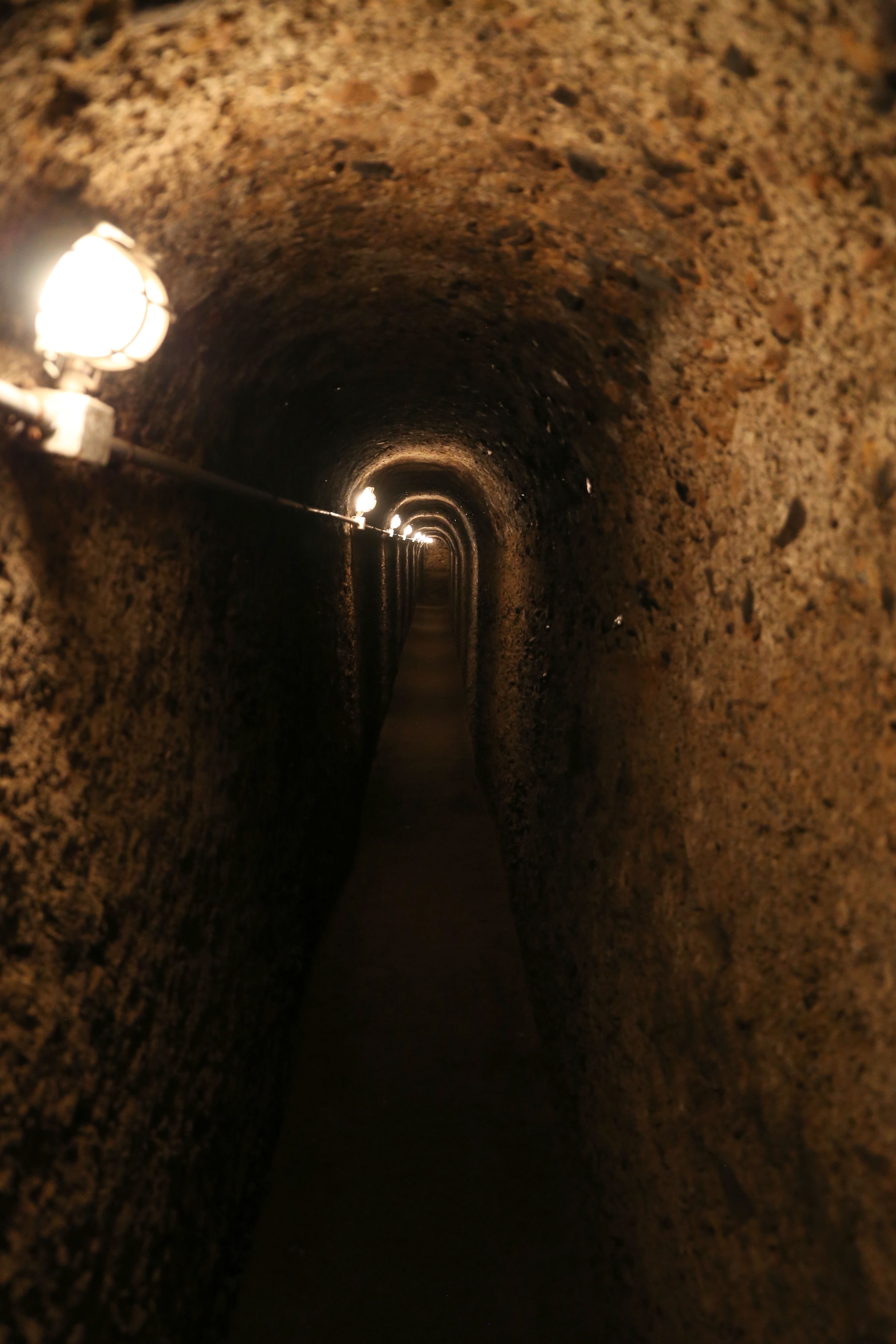 Archaeological site of San Vincenzino - Cistern